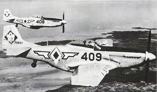 P-51 Mustangs of the Philippine Air Force circa 1950's. The PAF had problems with the plane's retracting rear wheel and finally modified the mechanism into a fixed "down" position even in flight.